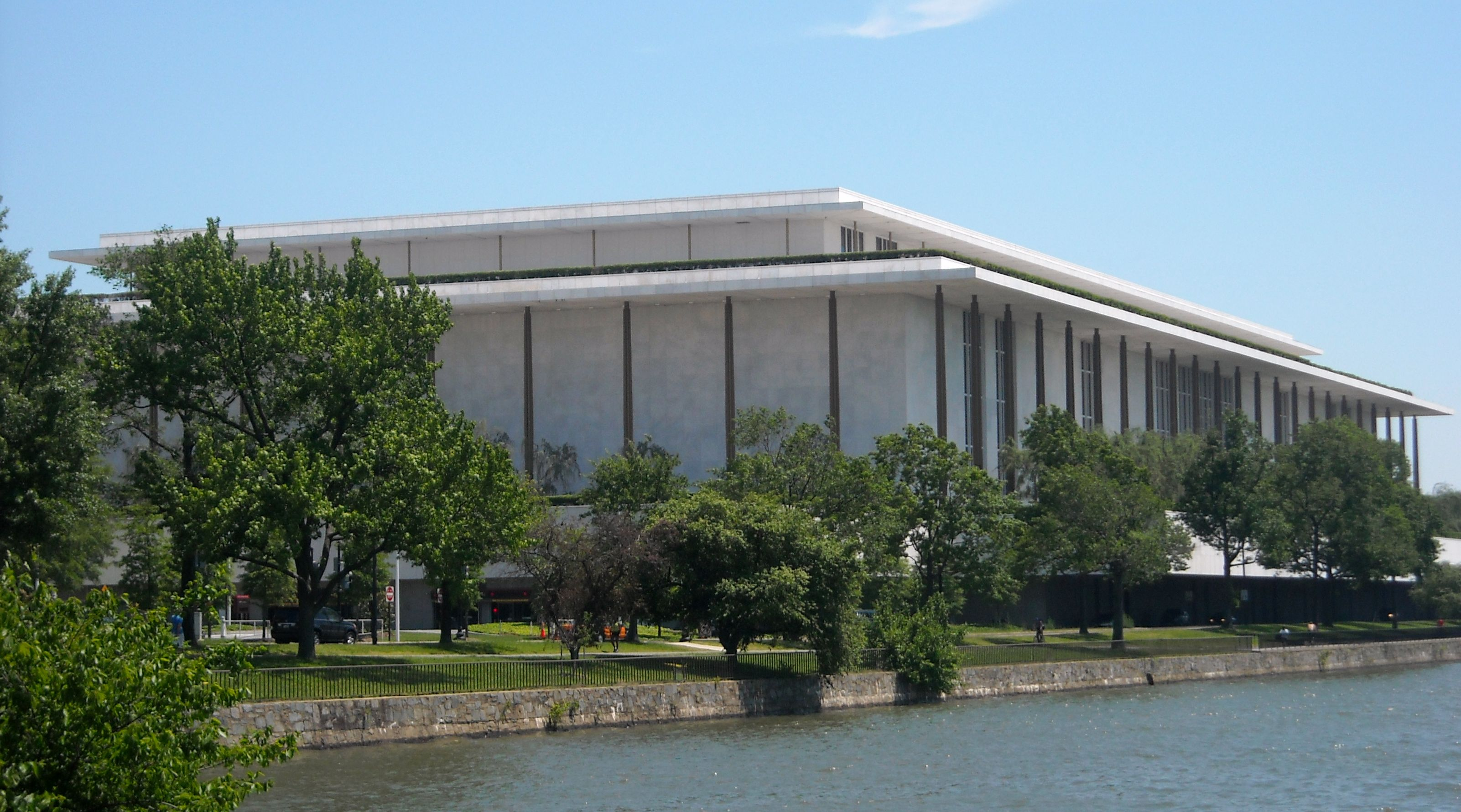 JFK Center for the Performing Arts in Washington, D.C.